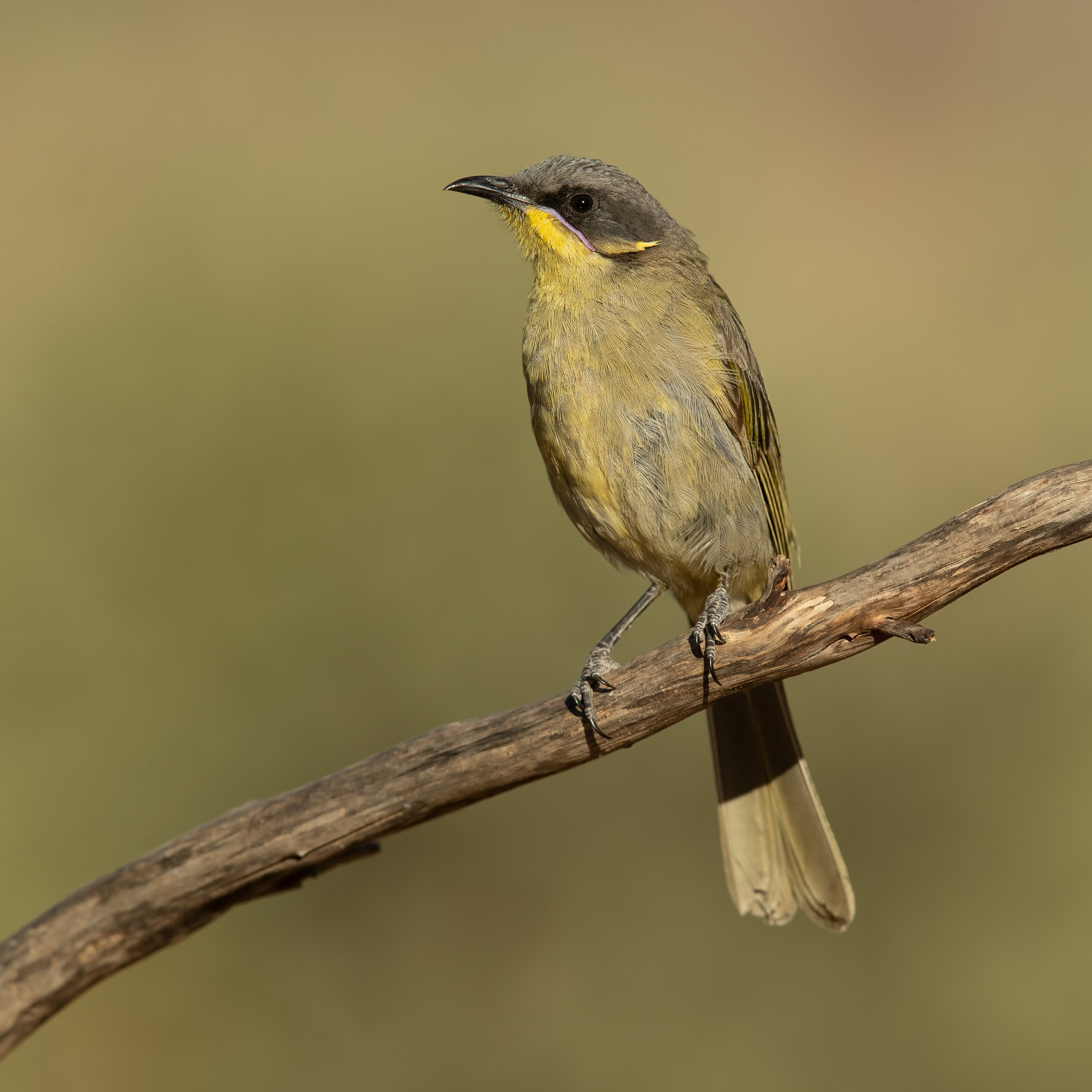 Purple-gaped Honeyeater (Lichenostomus cratitius), Patchewollock Conservation Reserve, Victoria, Australia